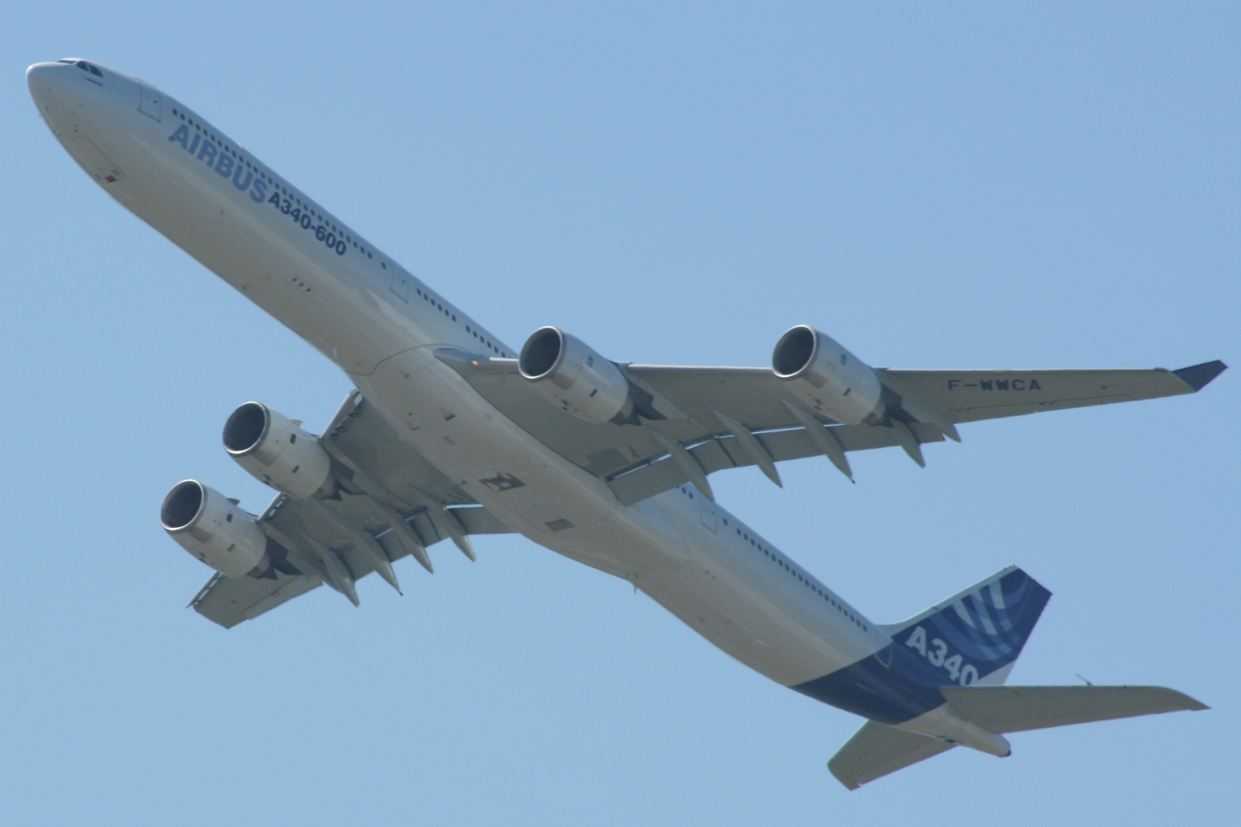 Airbus A340-600 at the 2006 Farnborough Airshow.